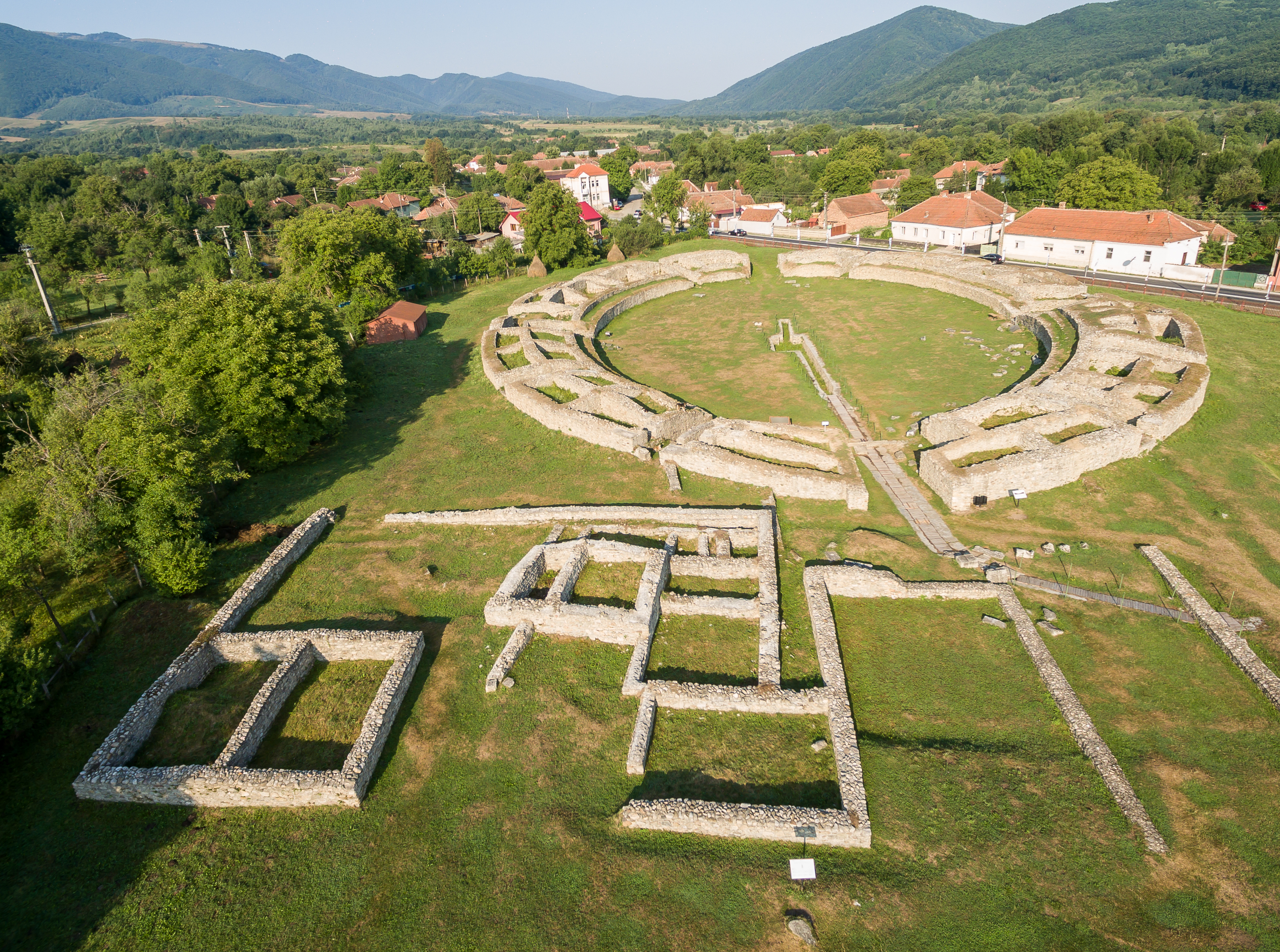 Aerial photographs of Ulpia Traiana Sarmizegetusa